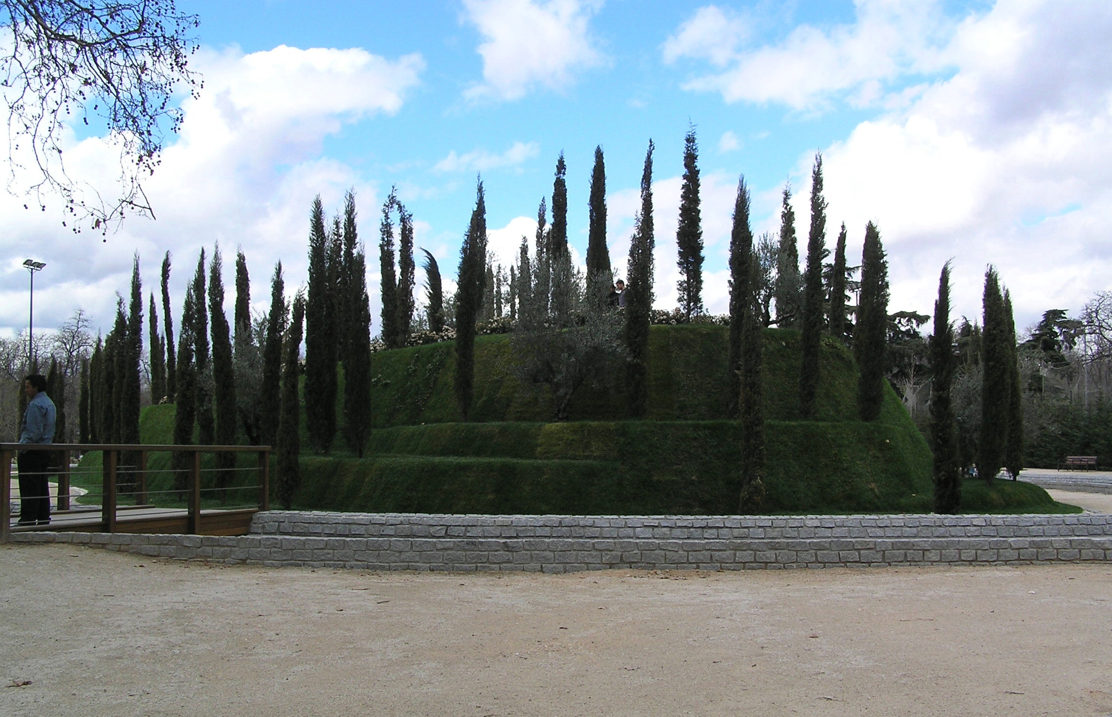 Bosque de los Ausentes (memorial for the victims of the 11-M terror blasts in Madrid), parque del Retiro, Madrid, Spain Author: Mr. Tickle Date: March 20th, 2006 Place: Madrid (Spain)